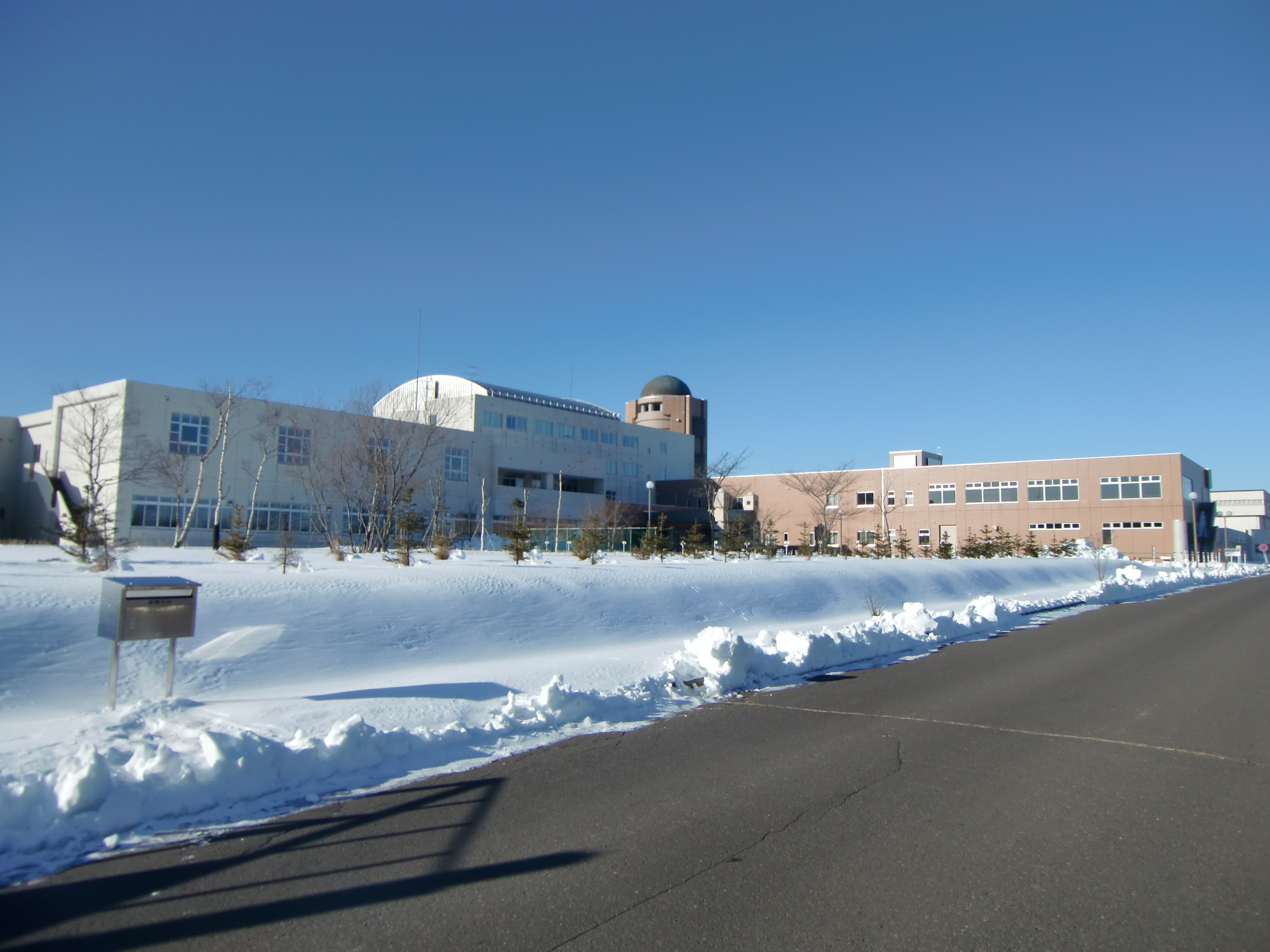 Kushiro Public University of Economics, Kushiro-city, Hokkaido, JAPAN.